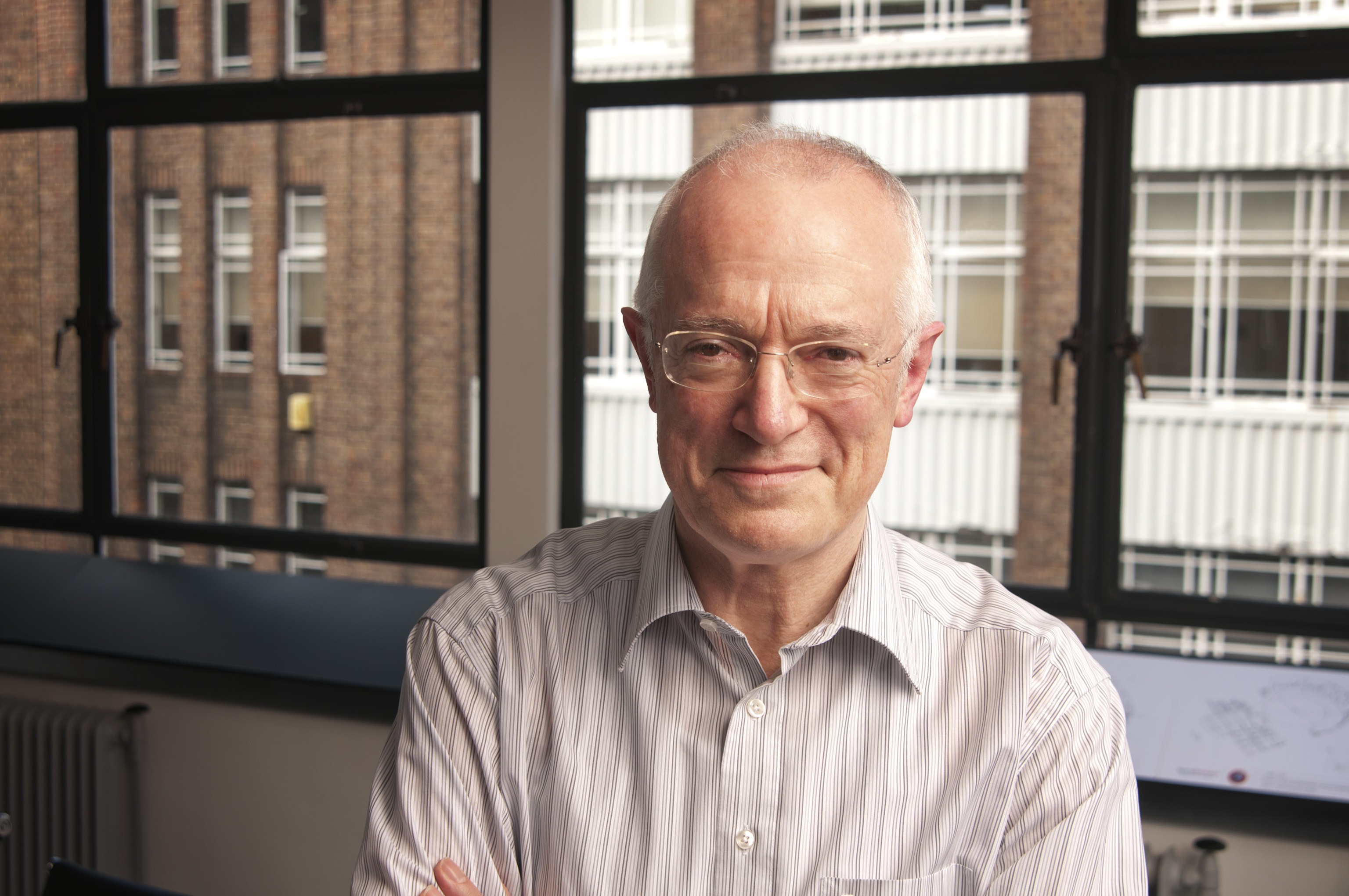 Business Entreprenuer Chris Ingram